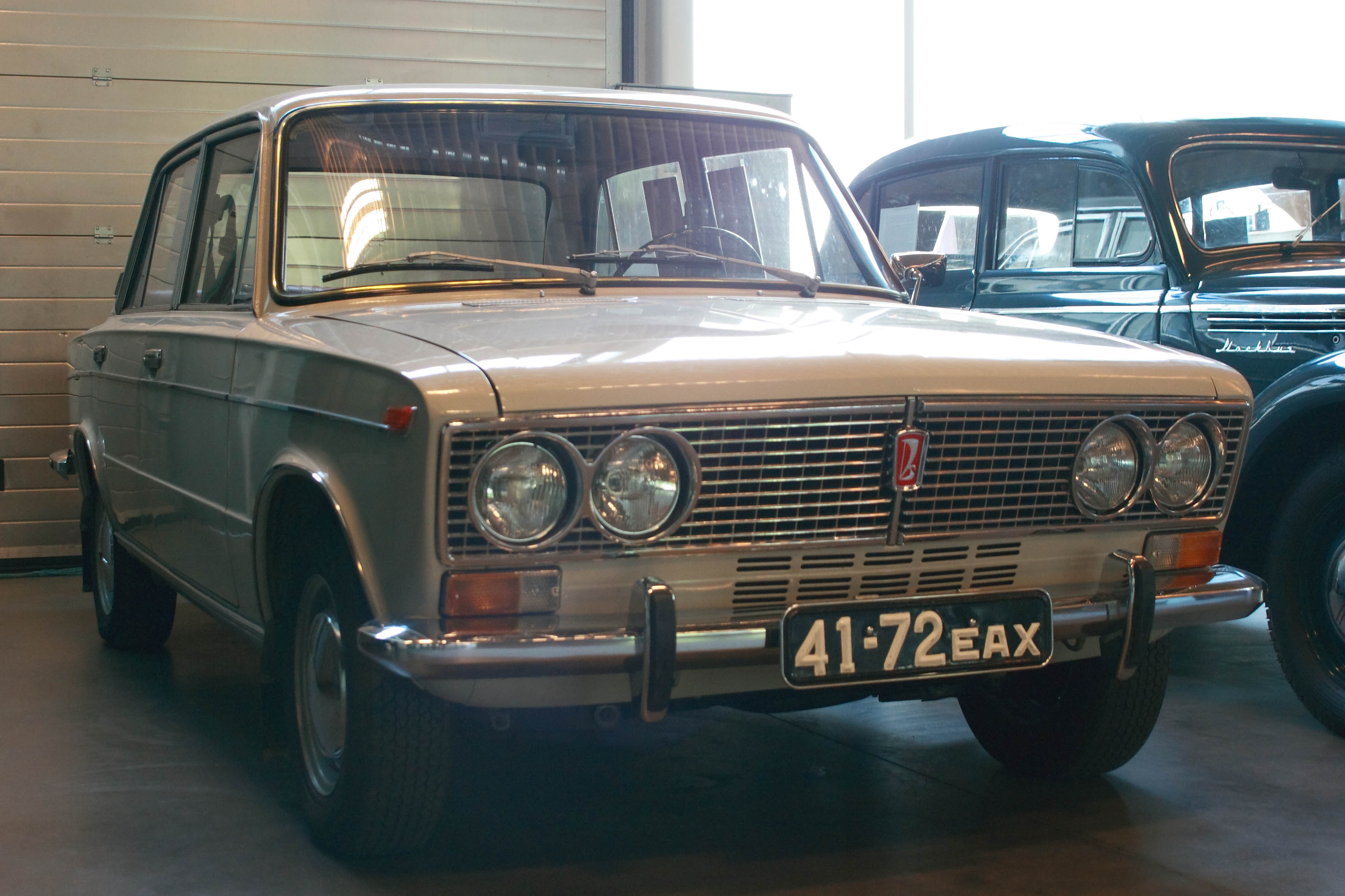 Lada (VAZ) 2103 - early 1973 form of cooling vents above bumper.